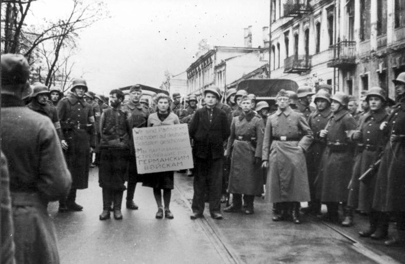 Masha Bruskina and two men were marched through Minsk, Russia by German troops on October 26, 1941 prior to their public executions. Bruskina carries a sign that reads in German and Russian "We are partisans and have shot at German soldiers".